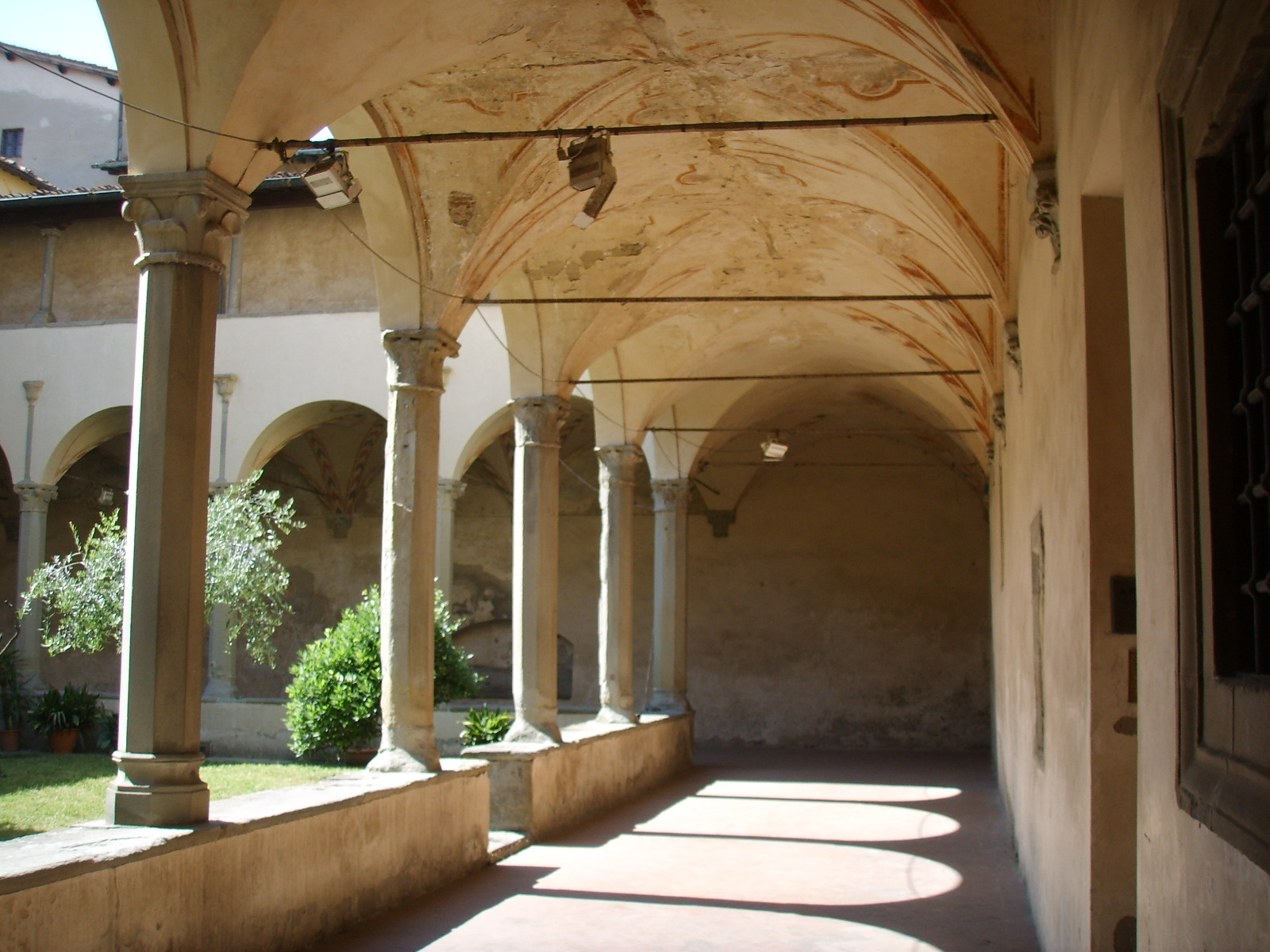 San Salvi cloister, outside view, in Florence, Italy